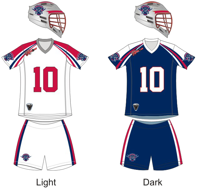 Diagram of the 2012 uniforms for the Boston Cannons, improved, transp. background added